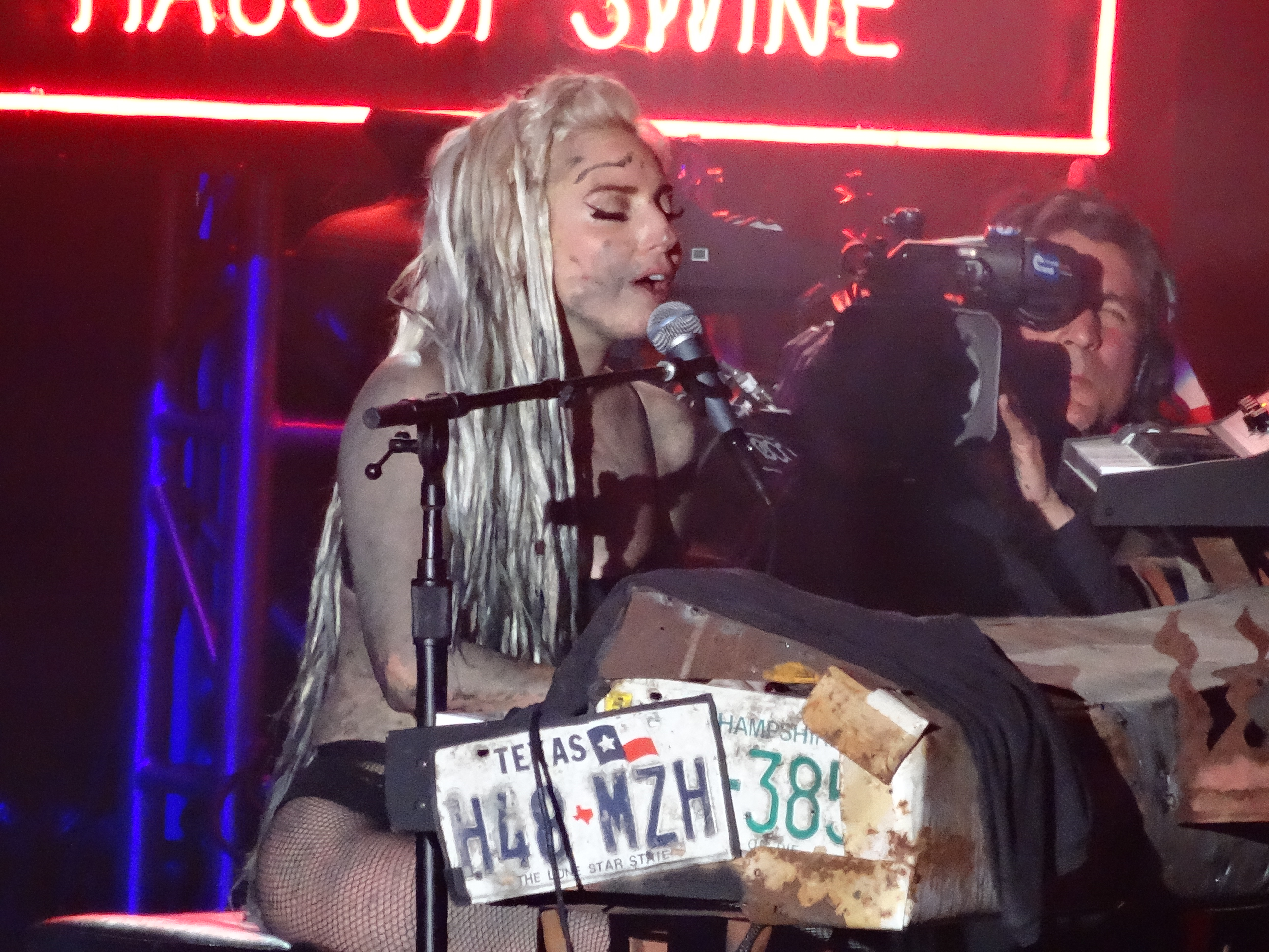 Lady Gaga singing "Dope" at South by Southwest, 2014